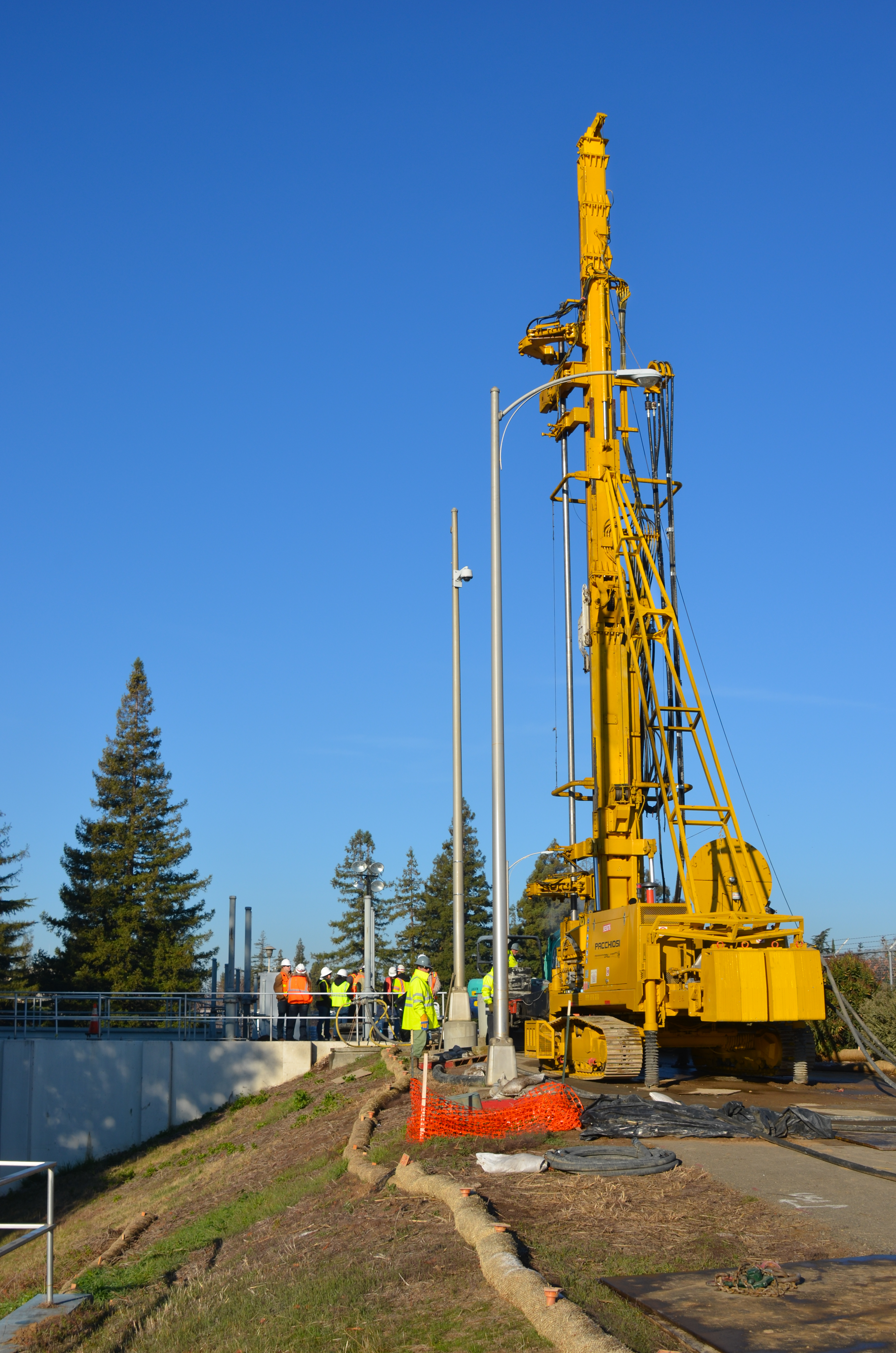 Crews operate a jet grout drill at a levee section along the American River in Sacramento, Calif., Dec. 11, 2013. This U.S. Army Corps of Engineers Sacramento District levee project at the E. A. Fairbairn Water Treatment Plant is using a precise construction method called jet grouting to inject a seepage cutoff wall around the plant’s buried utilities. The Corps installed more than 20 miles of seepage cutoff walls into American River levees between 2000 and 2002, but work was set aside for later where complicated encroachments existed such as utilities, power lines and bridges. (U.S. Army photo by Todd Plain/Released)